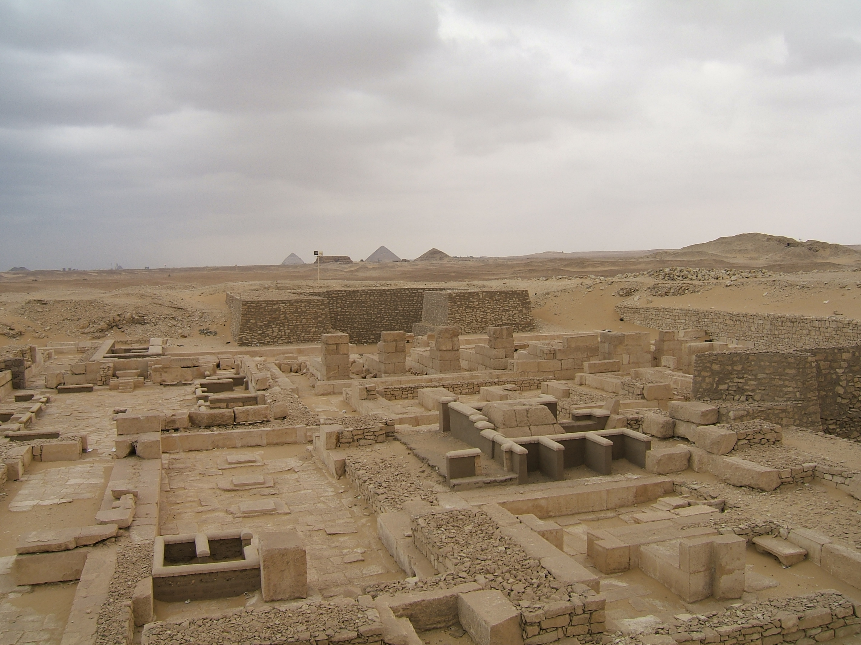 View over the pyramids and mortuary temples of Anchenespepi II and Anchenespepi III